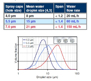 Droplet size distribution of a nano spray dryer.